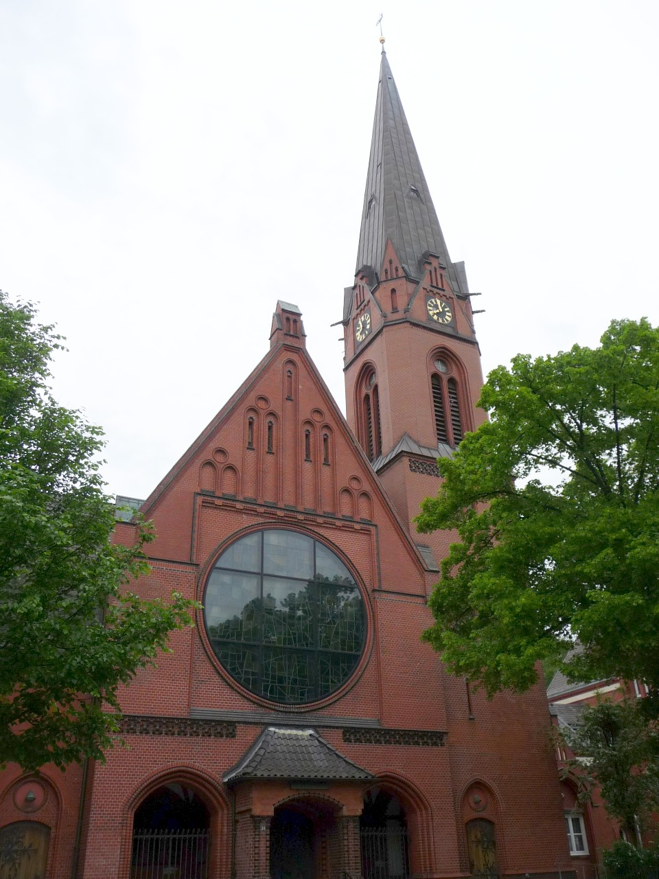 Church St. Andreas in Hamburg, Bogenstr.